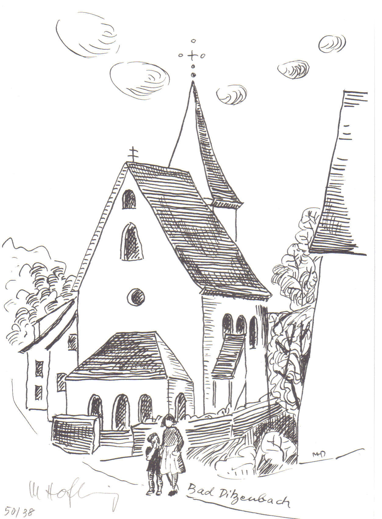 Bad Ditzenbach, ink drawing, 20 x 30 cm